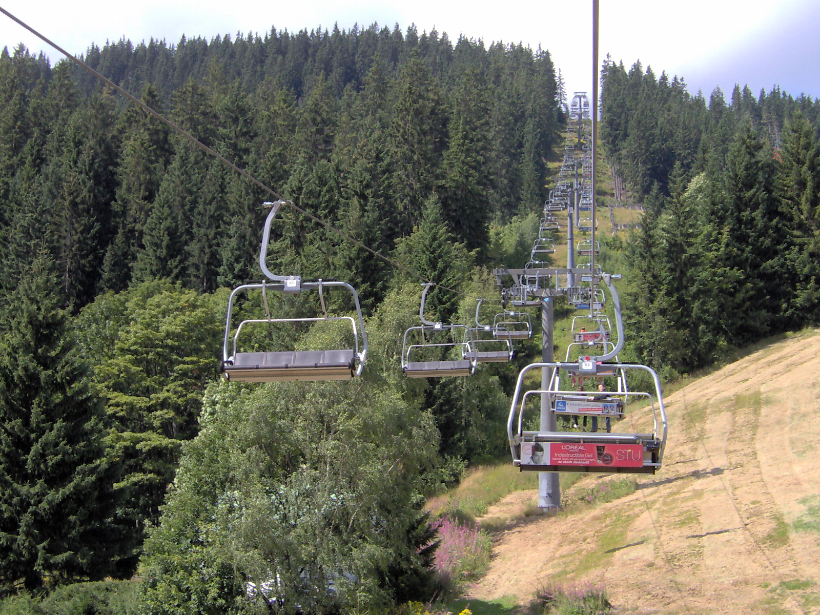 Chairlift Pec pod Sněžkou - Hnědý vrch